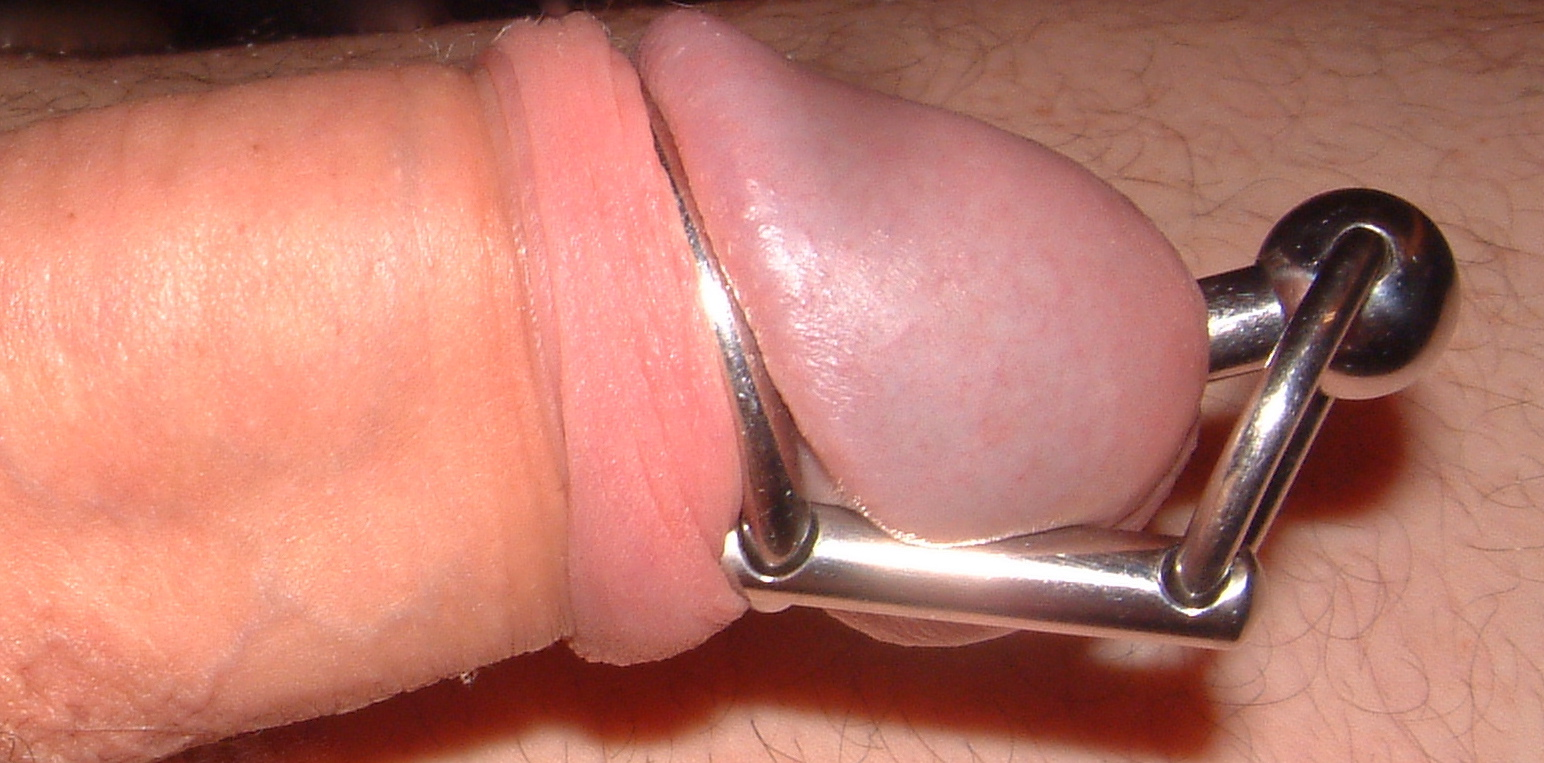 Pinless Wand